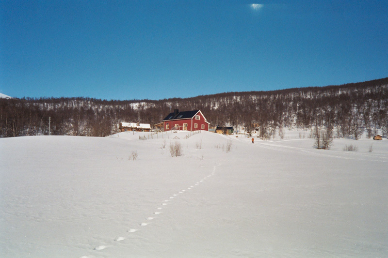 Vardofjäll in Vilhelmina Municipality, Sweden, is a mountain farm far away from roads but still with animals. The picture was taken in April 2004.